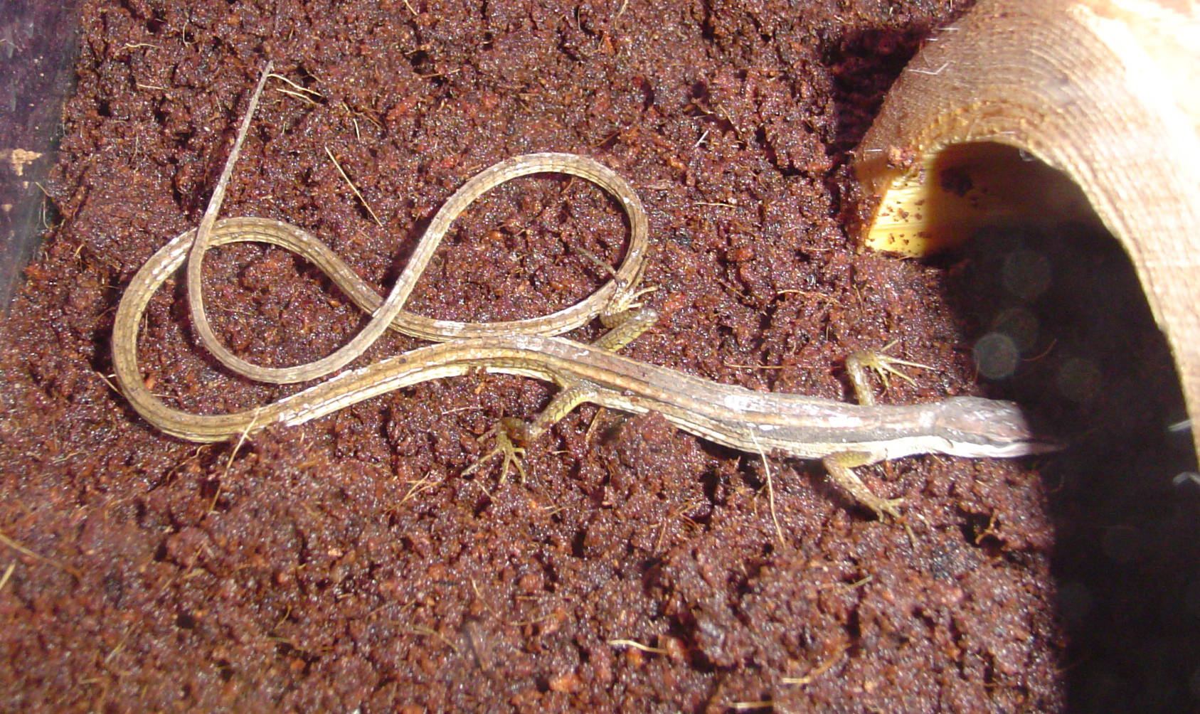 A picture taken by me of my late long-tailed grass lizard, Grover, taken May 31, 2004. Observe the tail--it's pretty long.